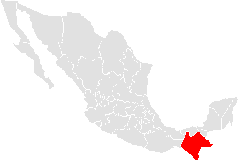 A map of the mexican state of chiapas made by me